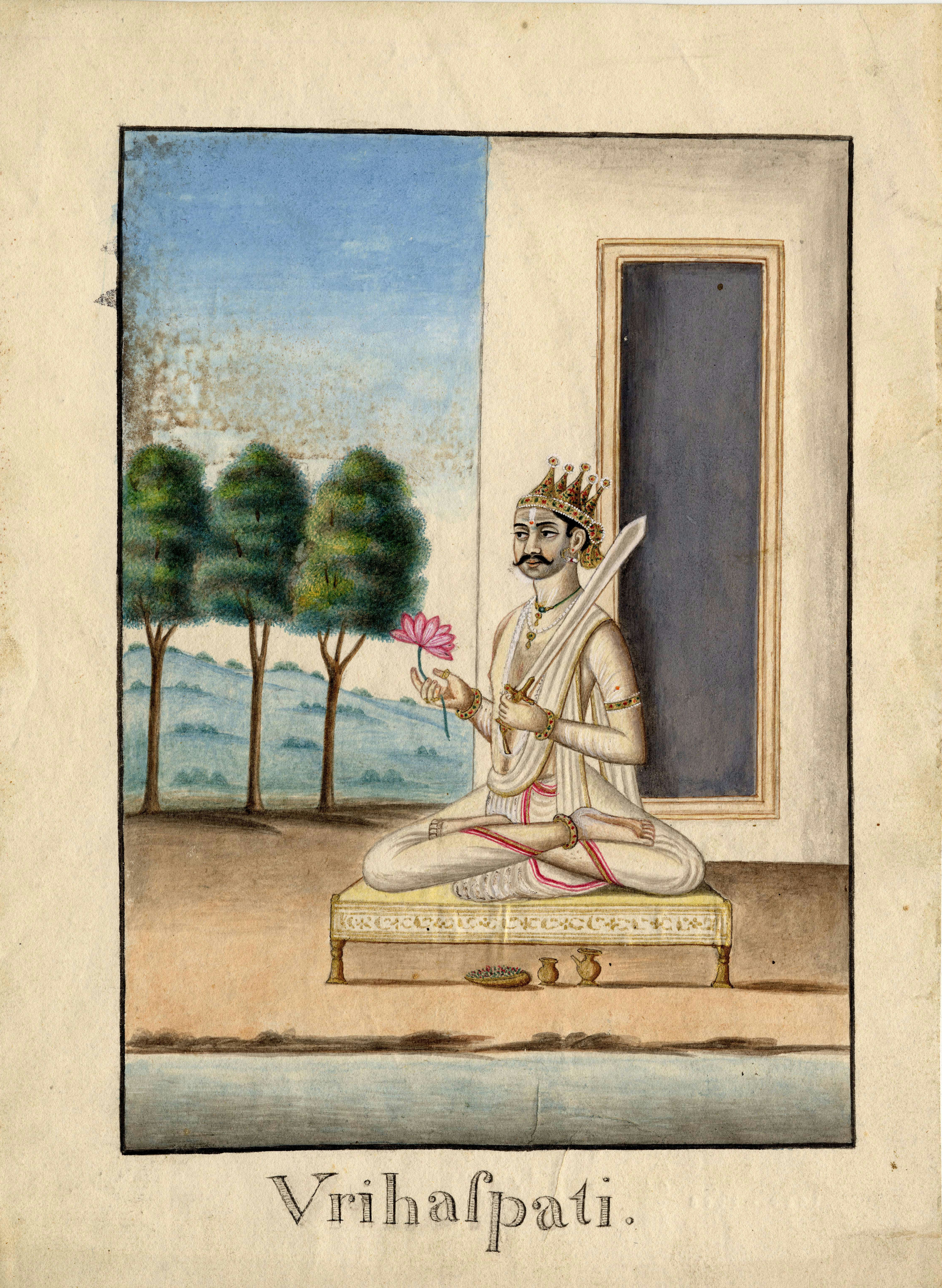 Vrihaspati Back to search results Object type painting term details Museum number 1880,0.2066 Title (object) Vrihaspati Description Watercolour painting on paper of Bṛhaspati, a Vedic deity holding a lotus flower. He wears a white dhoti with a shawl draped over his shoulders, a golden crown and jewellery on his wrists, ankles and arms. A sword in his left hand rests against his shoulder. He is seated on a platform with vessels underneath. In the bakcdrop is a building with an entrance; trees and a hill are in the distance. The painting is surrounded by a black border. More School/style Company School term details Date 19thC(early) Production place Painted in: Patna (?) term details (Asia,South Asia,India,Bihar (state),Patna) Findspot Found/Acquired: India (Asia,South Asia,India) Materials paper Technique painted term details Dimensions Height: 26.2 centimetres Width: 11.2 centimetres Inscriptions Inscription Type inscription Inscription Position lower border Inscription Language English Inscription Content Vrihaspati Location Not on display Subjects ruler hinduism term details lotus term details arms/armour term details Associated names Named in inscription: Rāma biography Associated with: Vrihaspati Department Asia Registration number 1880,0.2066